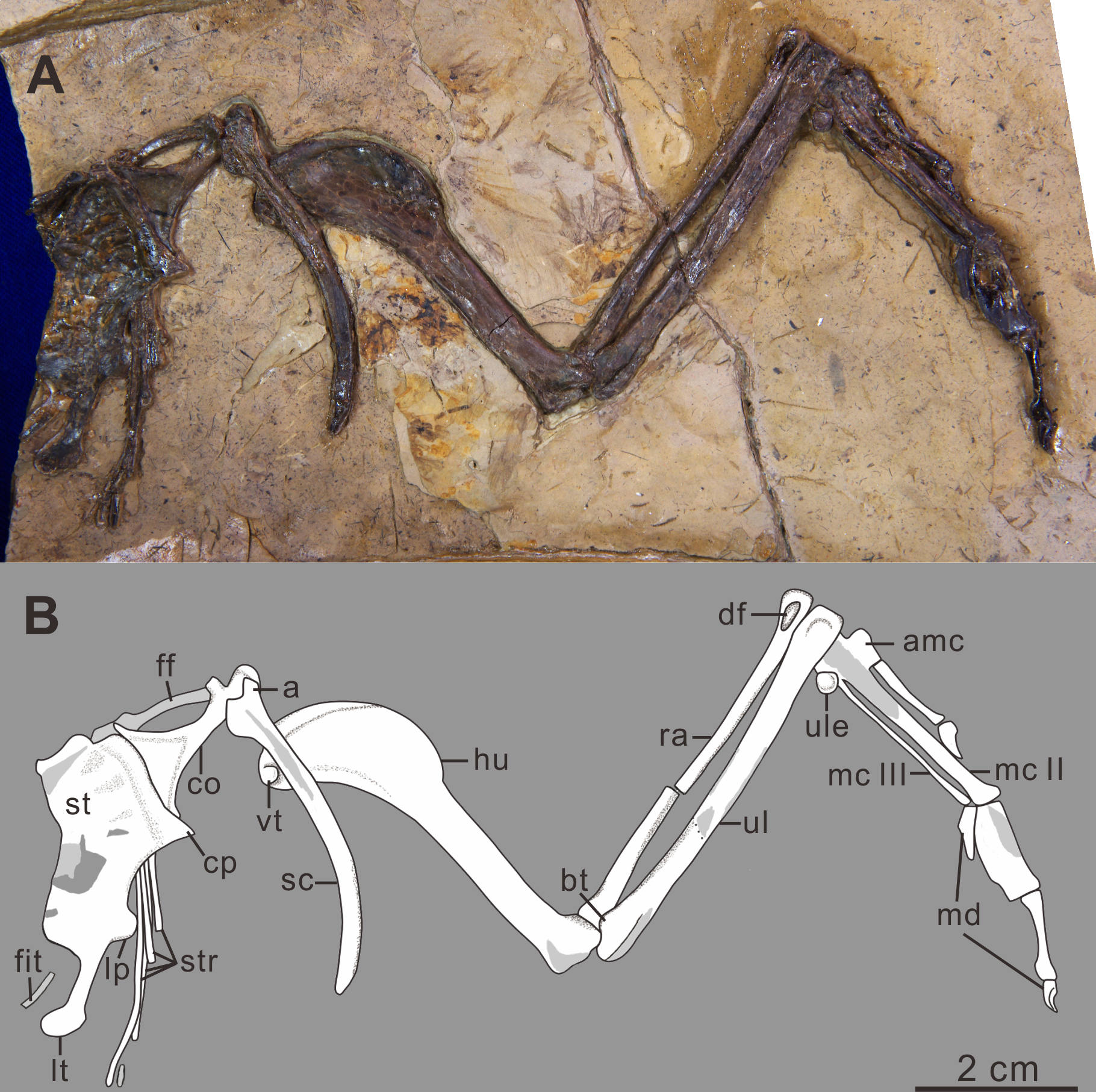 Photograph of Yumenornis huangi gen. et sp. nov., GSGM-06-CM-013 (A) and line drawing (B). Abbreviations: a, acromion; amc, alular metacarpal; bt, bicipital tubercle; co, coracoid; cp, craniolateral process; df, distal fossa; ff, fragment of the furcula; fit, fragment of the intermediate trabecula; hu, humerus; lp, lateral process; lt, lateral trabecula; mc II, metacarpal II; mc III, metacarpal III; md, manual digits; sc, scapula; st, sternum; str, sternal ribs; ra, radius; ul, ulna; ule, ulnare; vt, ventral tubercle.